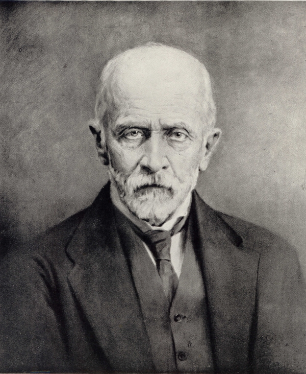 A now-lost portrait of Leon Piniński (oil on canvas); robbed by the Germans from the Wawel Castle in Kraków